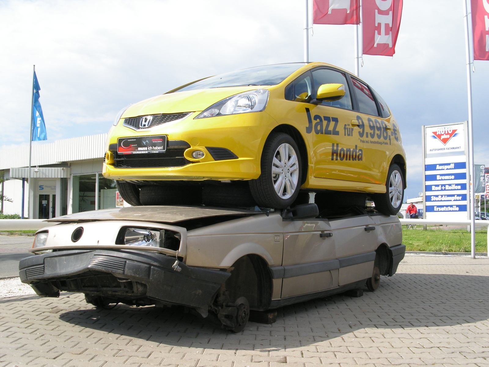 The German 'Umweltprämie'. A Honda dealer wants to get some attention.